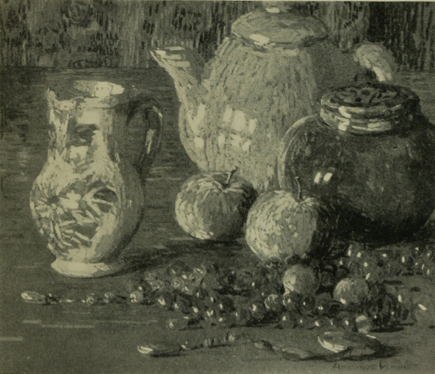 Black and white reproduction of Pottery and Jade by Adelaide Deming from the 1916 New York Watercolor Club Exhibition catalog